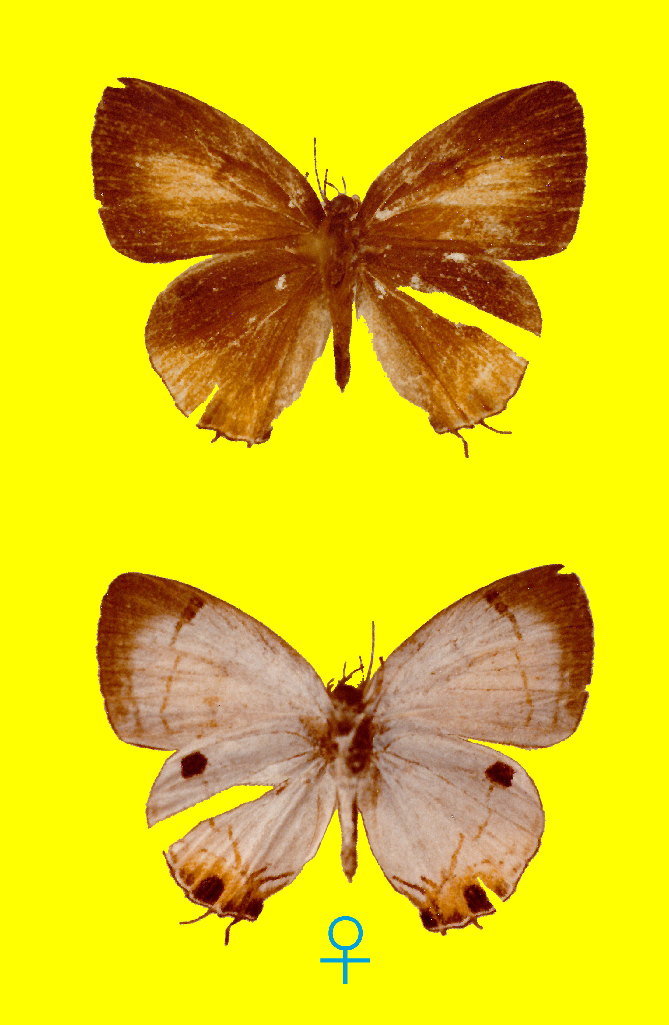 Hypolycaena irawana, female